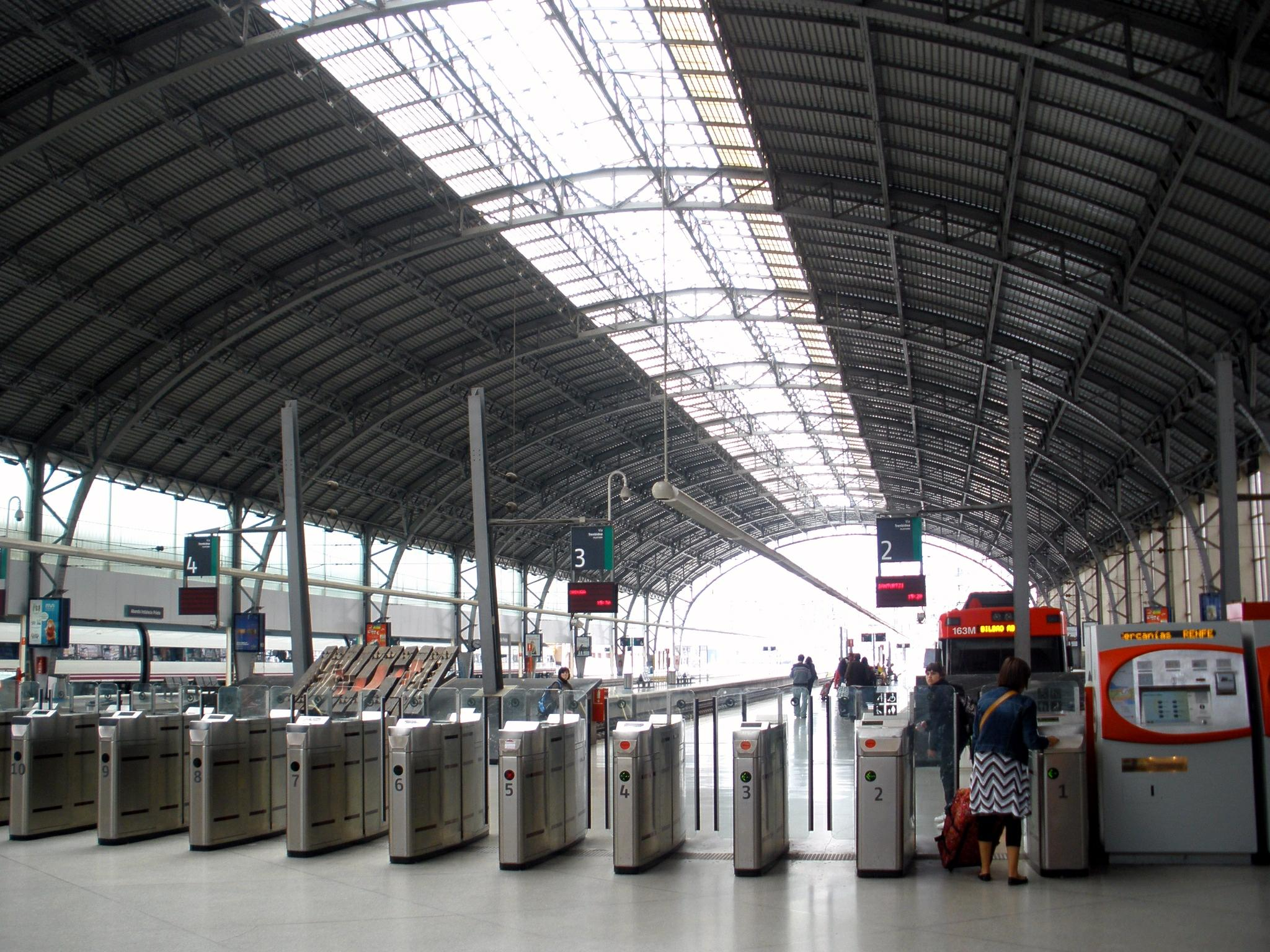 Estación de Abando Indalecio Prieto, en Bilbao (País Vasco, España)